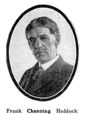 Frank Channing Haddock